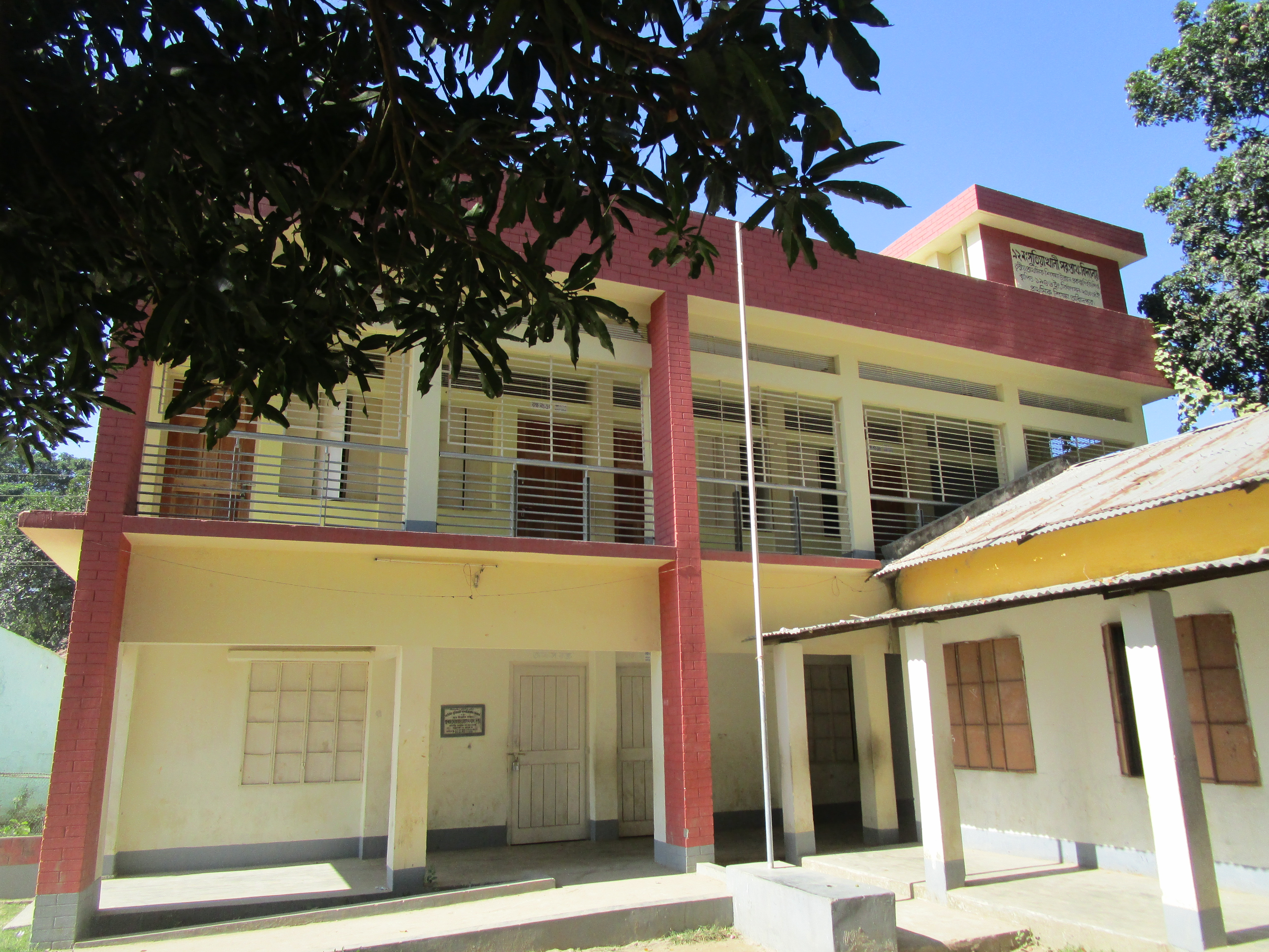 A building of Sutiakhali Govt. Primary School.